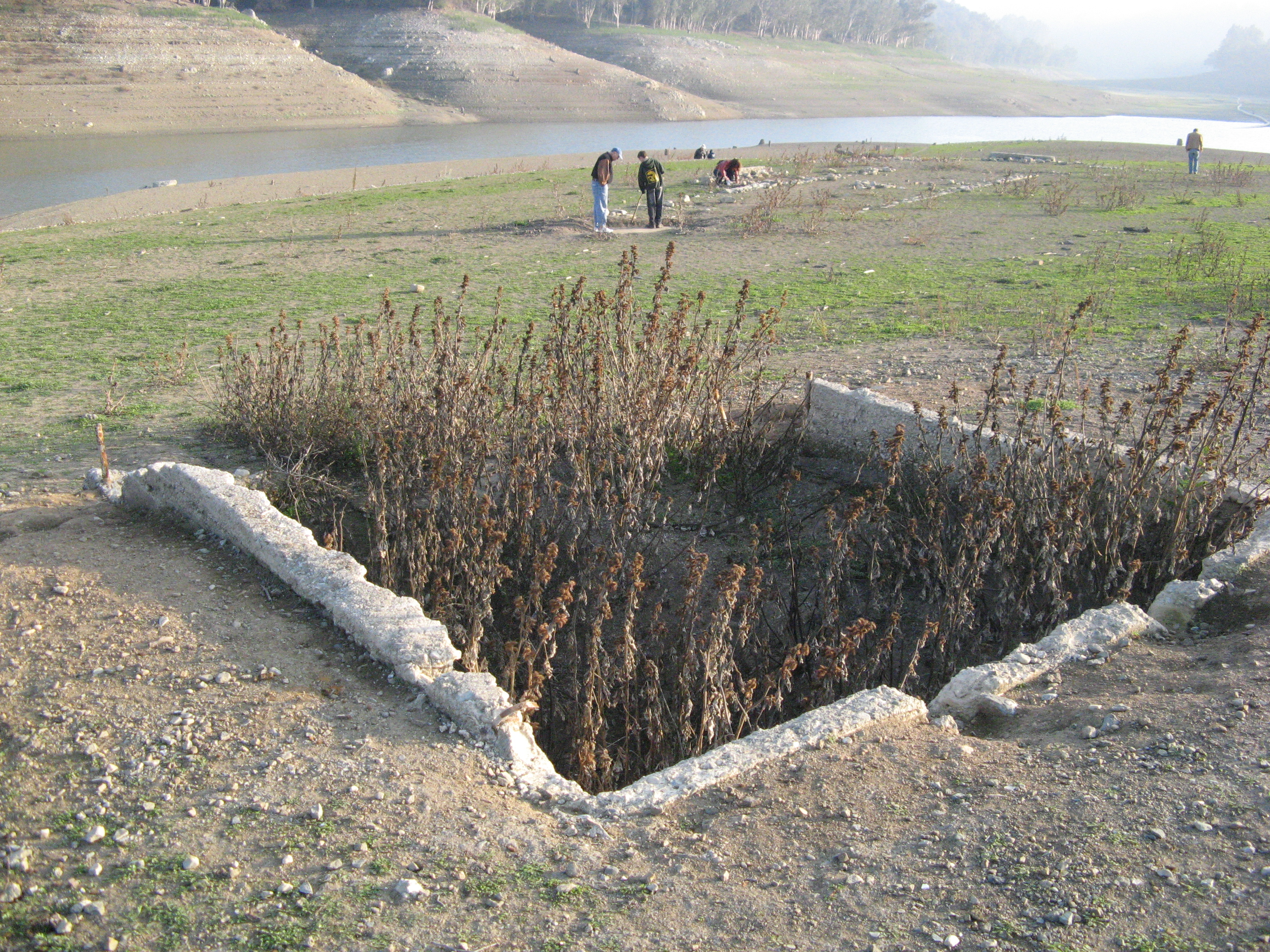 Foundation of home in Lexington, normally covered by the water of Lexington Reservoir, but exposed by dam maintenance. With a view in the background of the receded water.